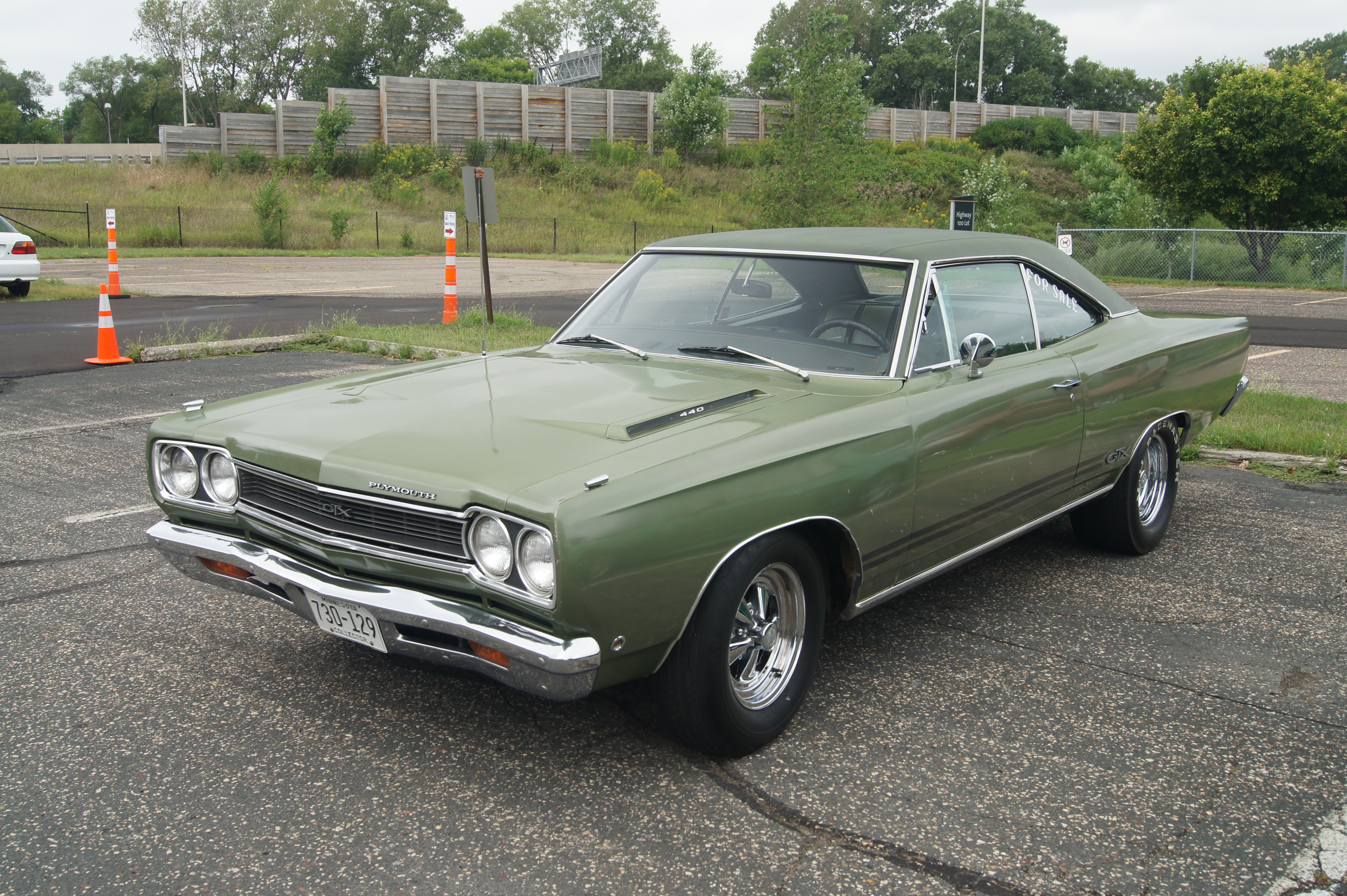 ROLL ON WITH AMERICAN PRIDE CAR & MOTORCYCLE SHOW Chester Bird American Legion Post 523 Golden Valley, Minnesota Proceeds to MIA/POW causes